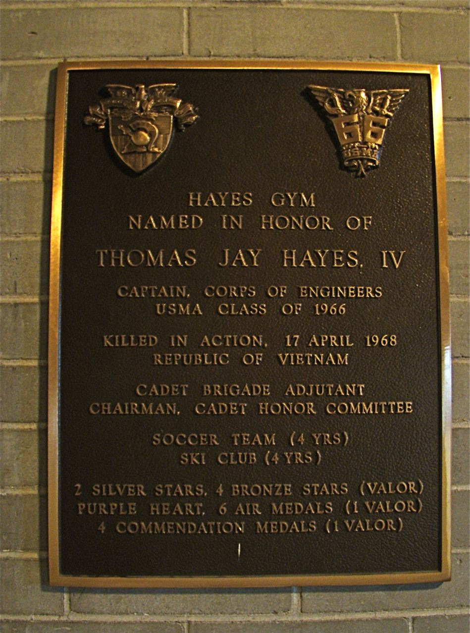 Dedication plaque for Hayes Gym, USMA, West Point, NY